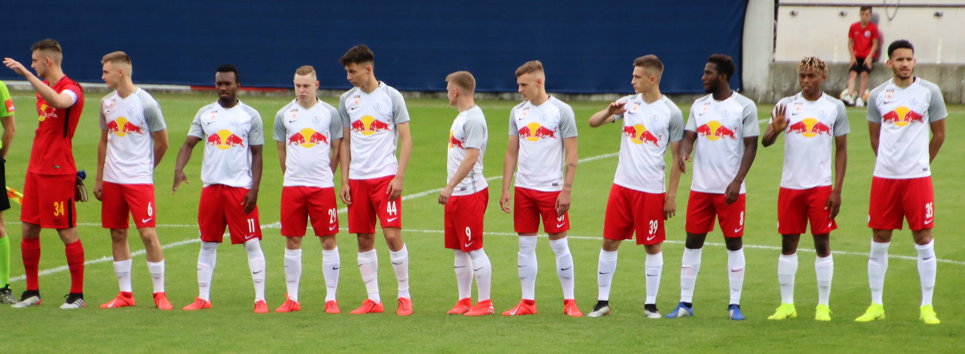 league match Austria 2nd league